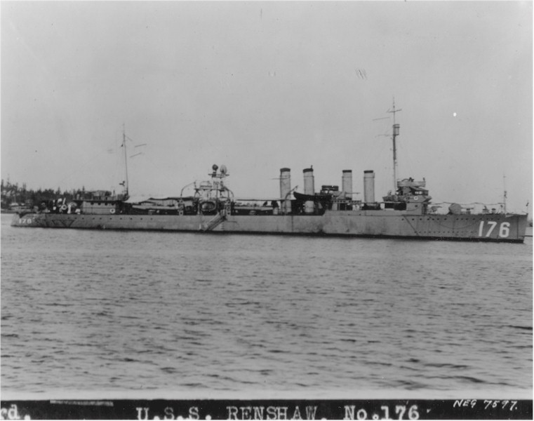 The U.S. Navy destroyer USS Renshaw (DD-176), circa in 1920.